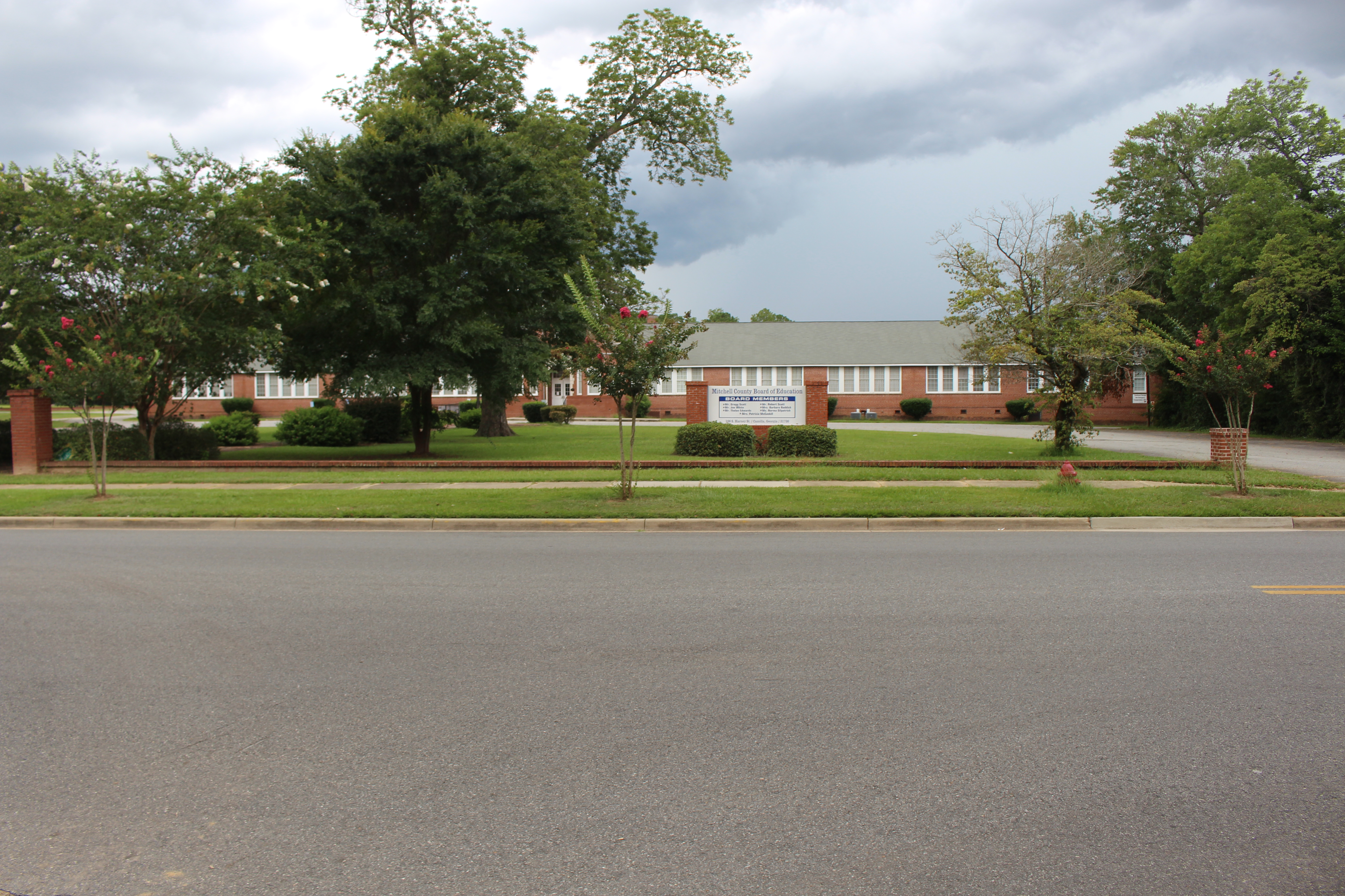 Mithcell County Board of Education, Camilla, Mitchell County, Georgia